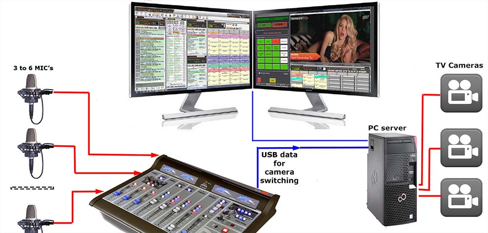 Block Diagram of the Visual Radio typical installation